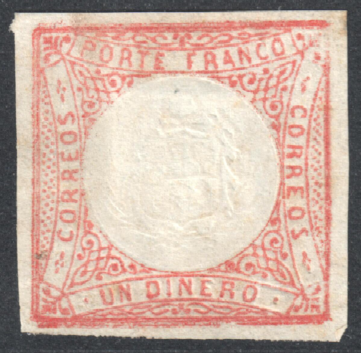 Stamp of Peru, 1862, Scott #12.